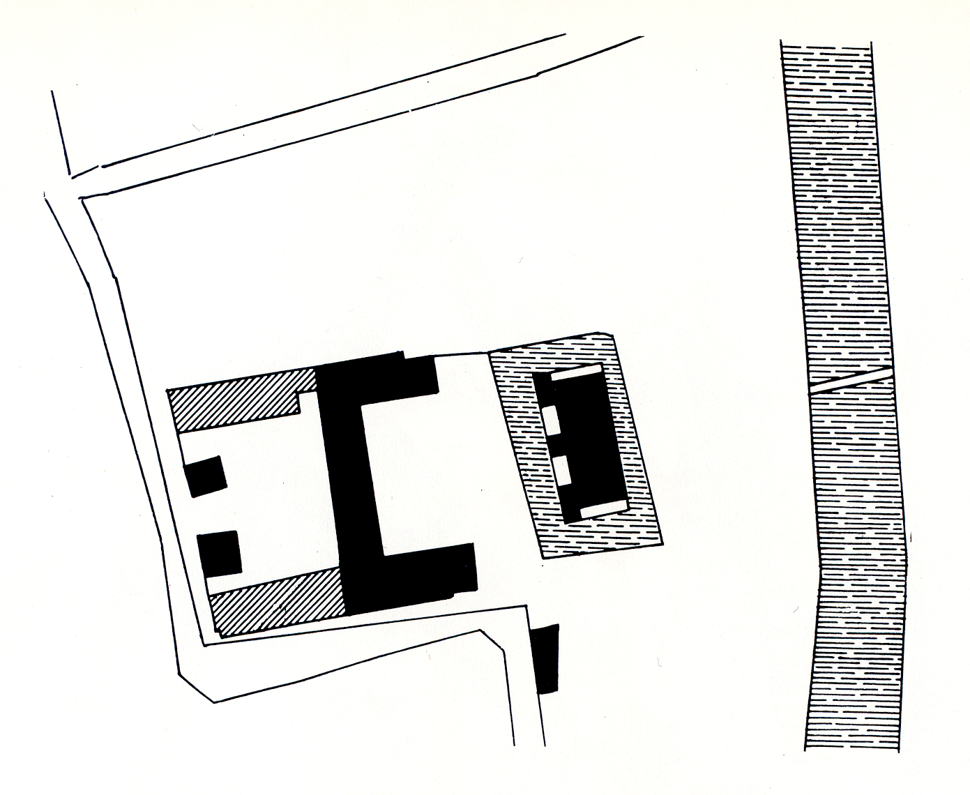 Cadastral plan of Castle Laer in Meschede